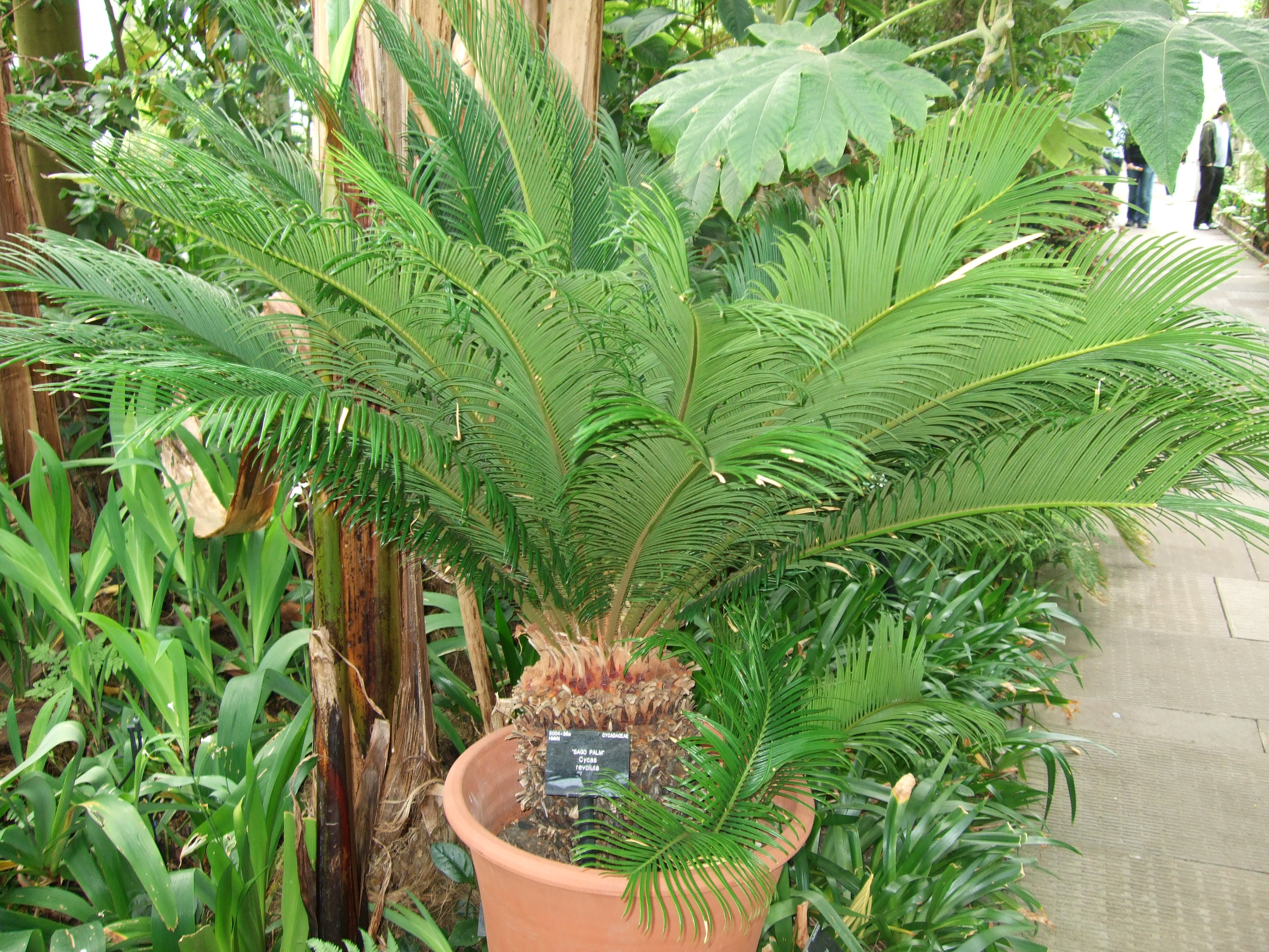 Cycas revoluta from the family Cycadaceae